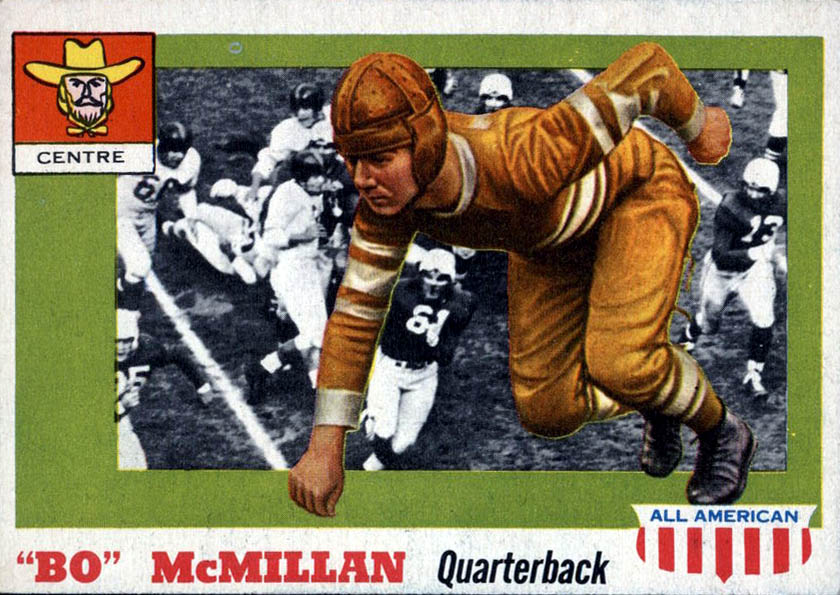 1955 Topps football card of Alvin "Bo" McMillin